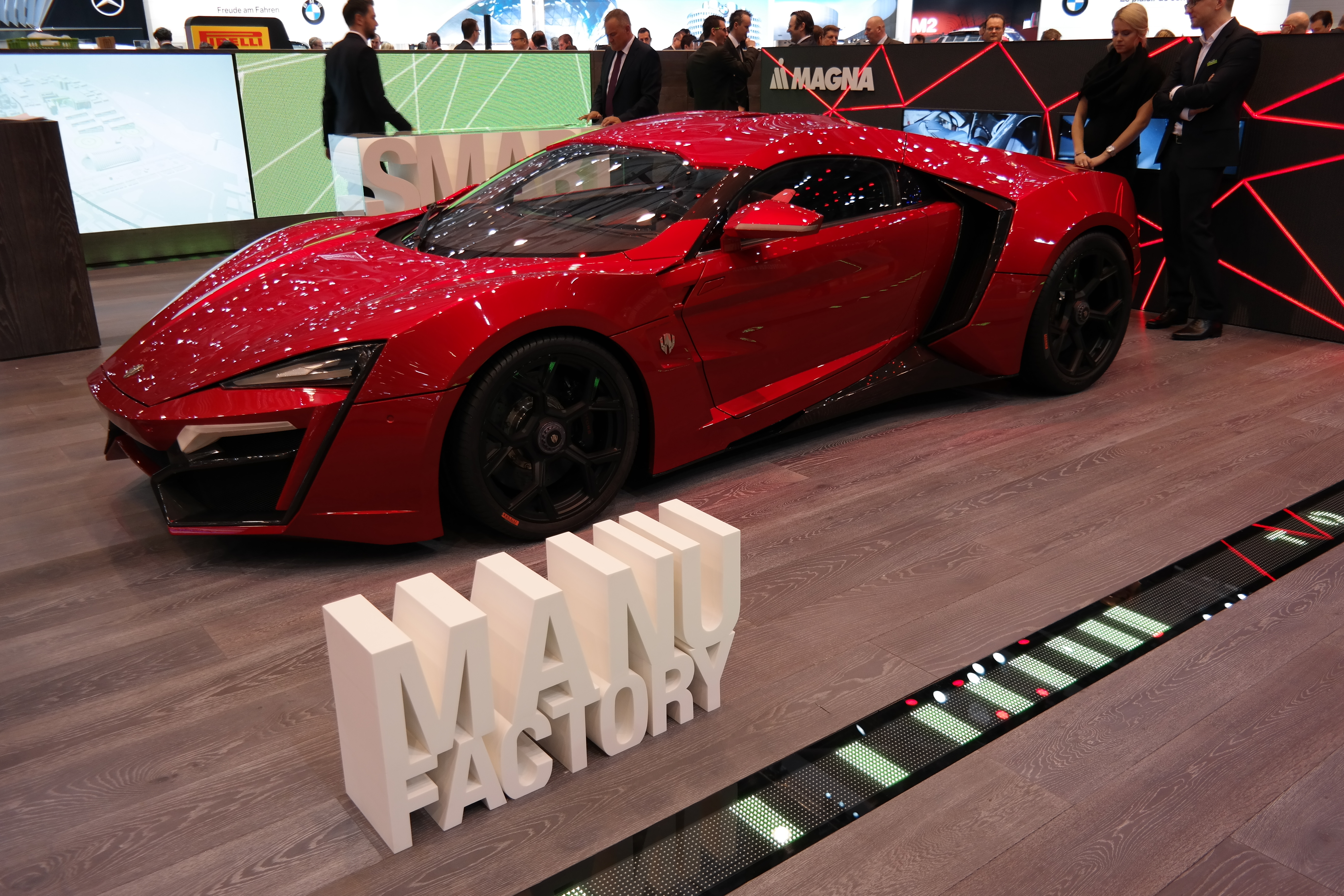 Geneva Motor Show 2016 (photo taken on the first press day)